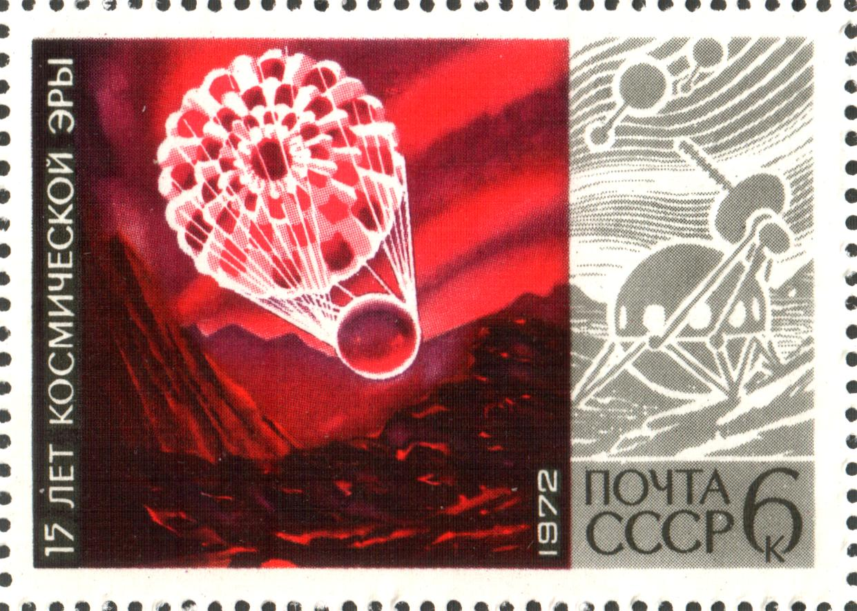 USSR stamp